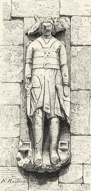 Frederick II, Duke of Austria